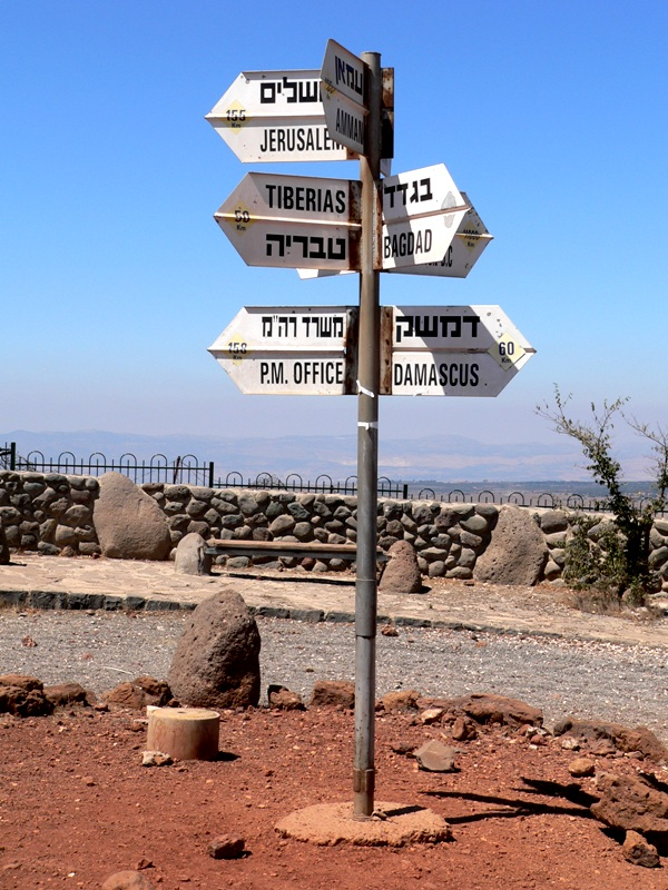 Bental Mountain observation, Golan Heights (Ramat HaGolan), Israel Israel